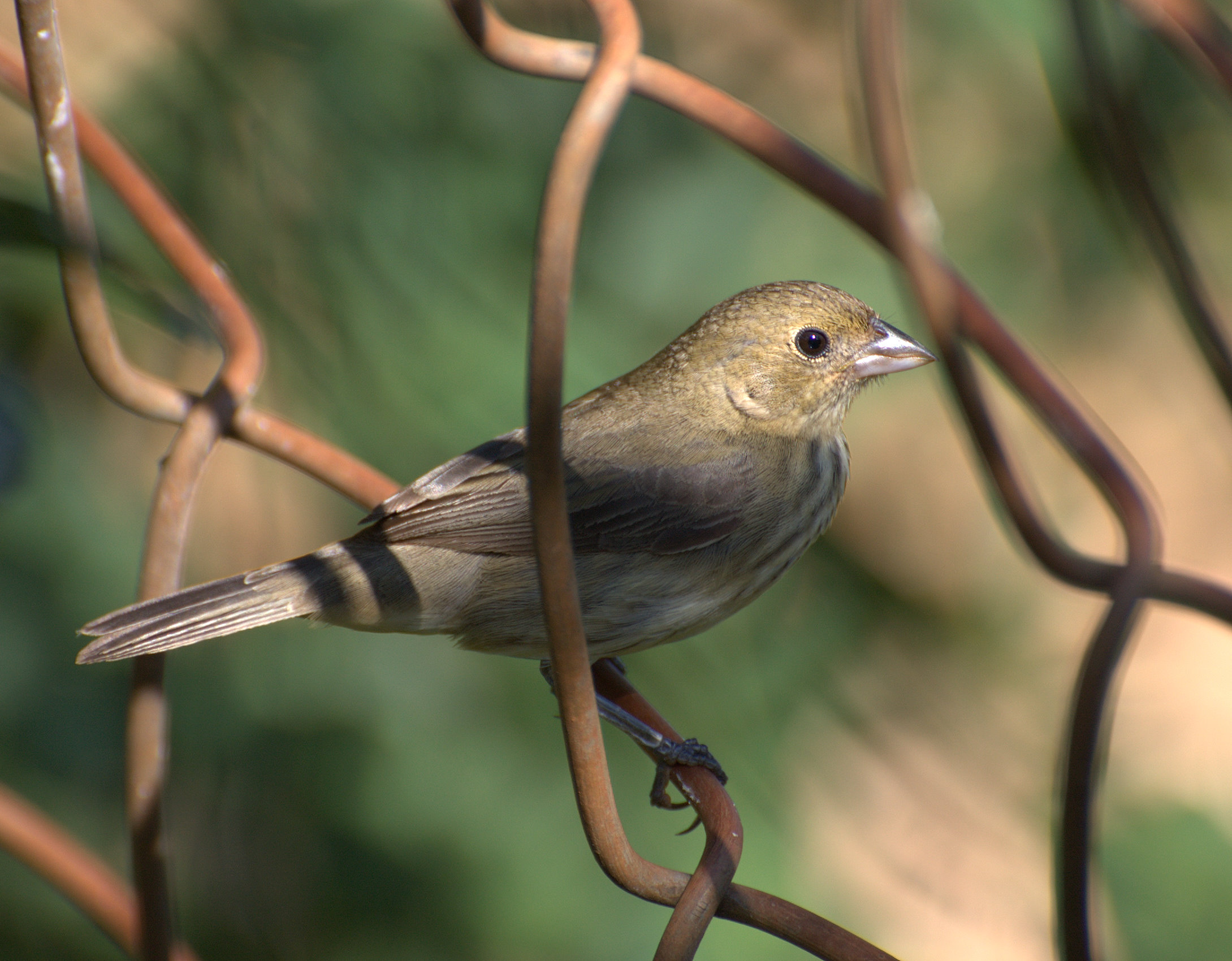 A Blue-black Grassquit (Volatinia jacarina), female